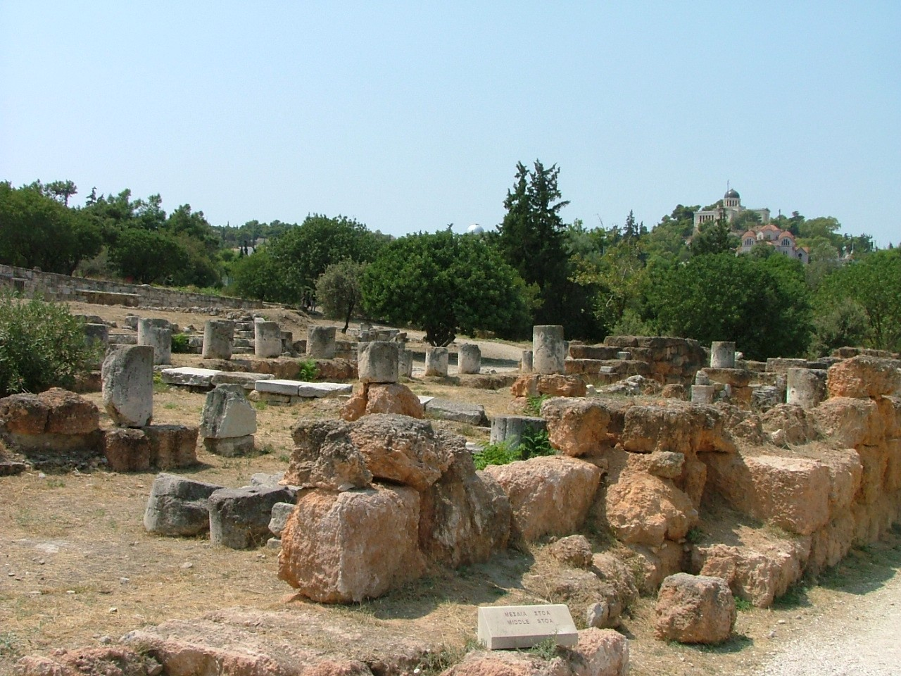 Middle Stoa in Athens Roman Agora. 180-140 BC.